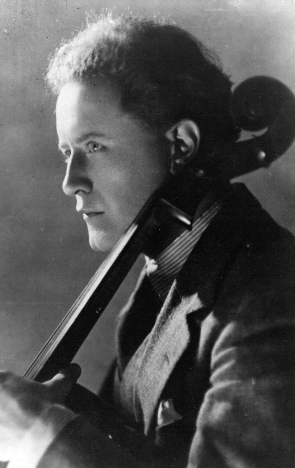 Depicted person: Hans Kindler – American conductor and cellist